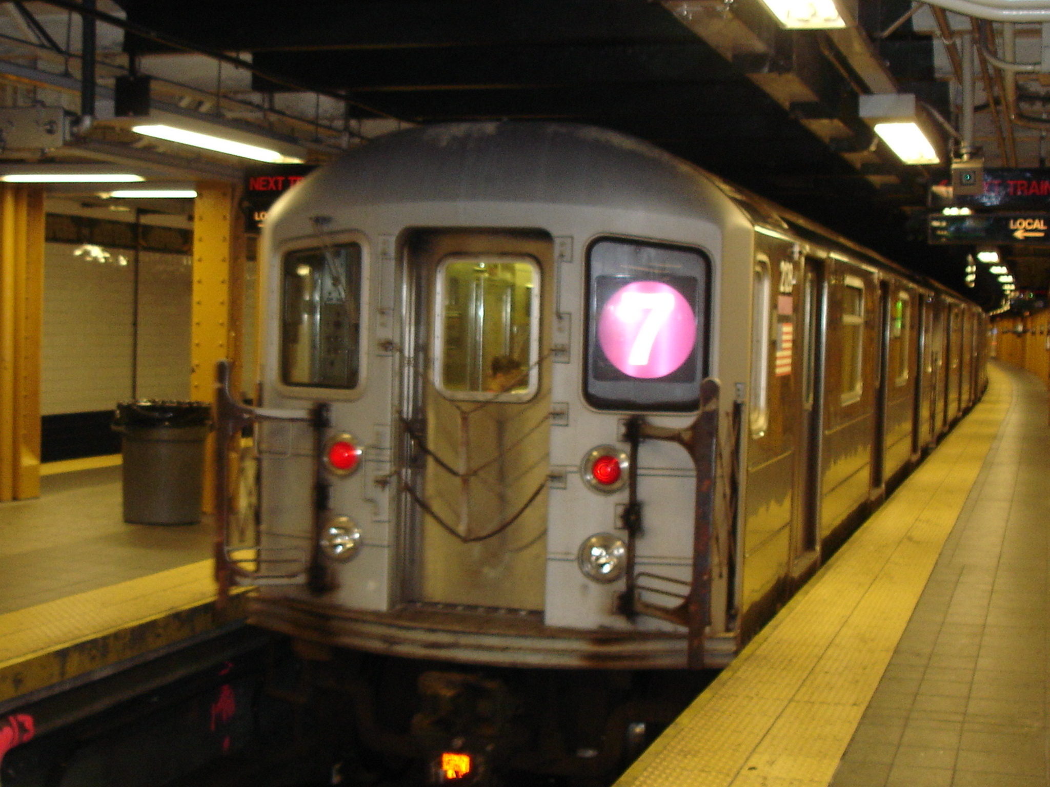 R62A 7 train arrives at Flushing – Main Street station in Queens, New York City.